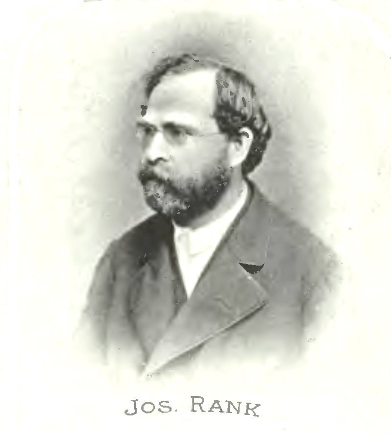 Portrait of Josef Rank (1833-1912), Czech author of dictionaries and handbooks.